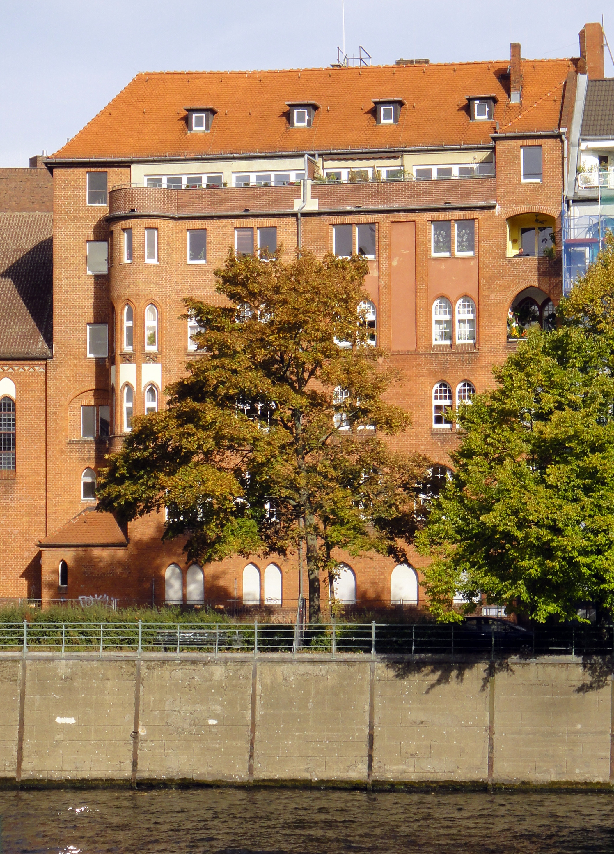 Berlin in winter